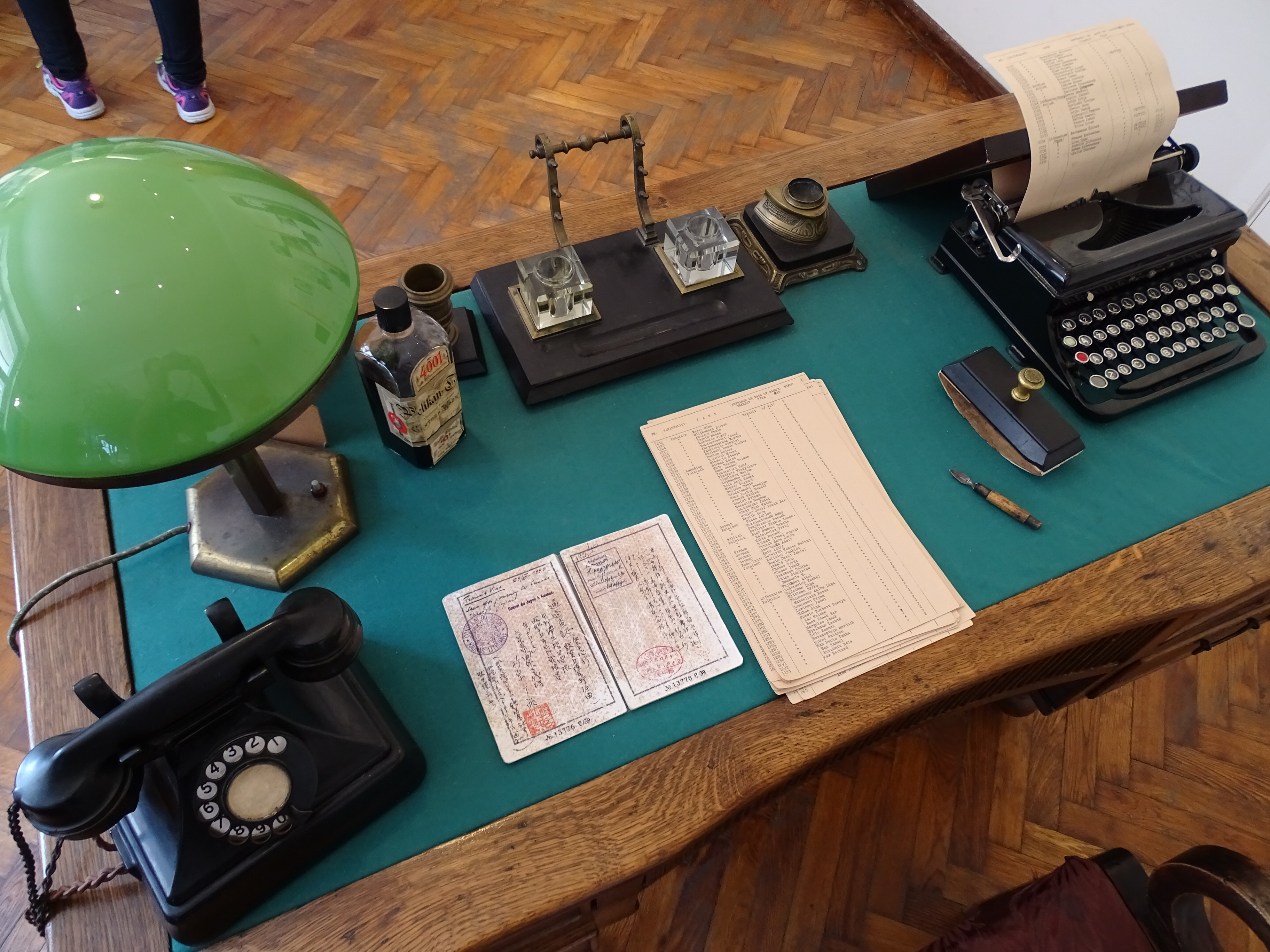 Recreation of Sugihara's Consular Desk of the Chiune Sugihara House in Kaunas, Lithuania.